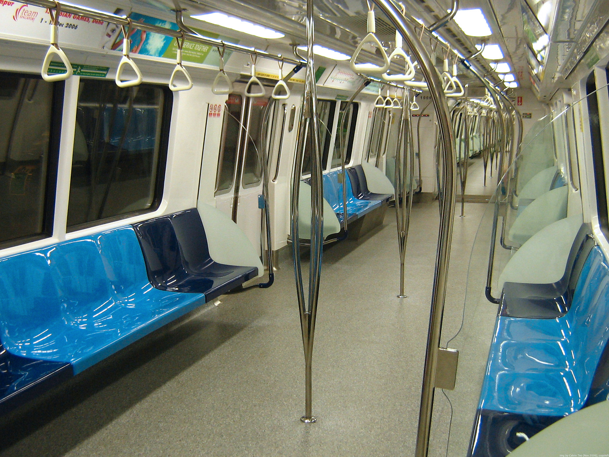 The Interior of car no. 1006, one of the refurbished Kawasaki Heavy Industries C151 trains.